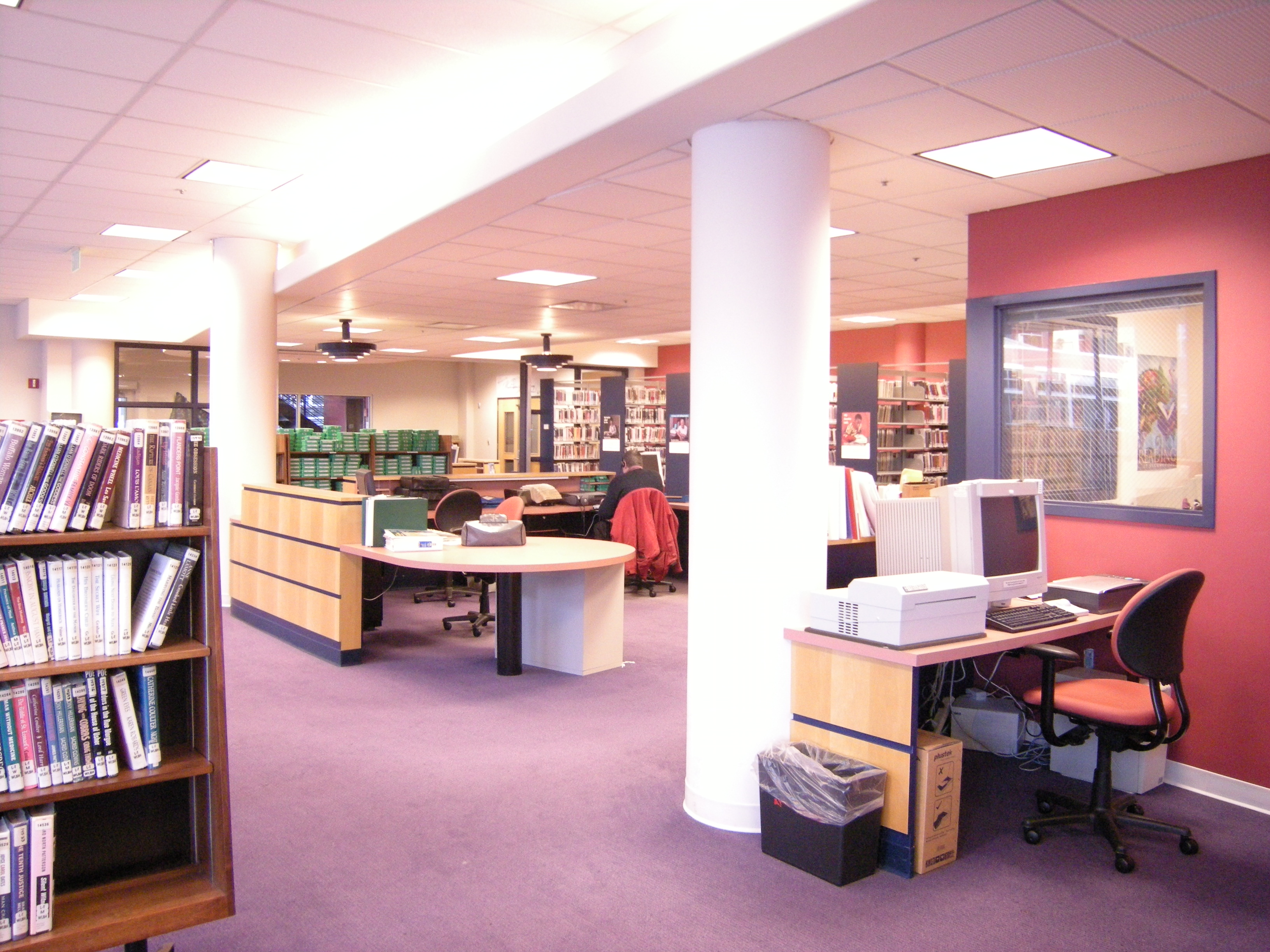 Large print book stacks, Washington Talking Book & Braille Library, 2021 Ninth Avenue, Seattle, Washington, USA.